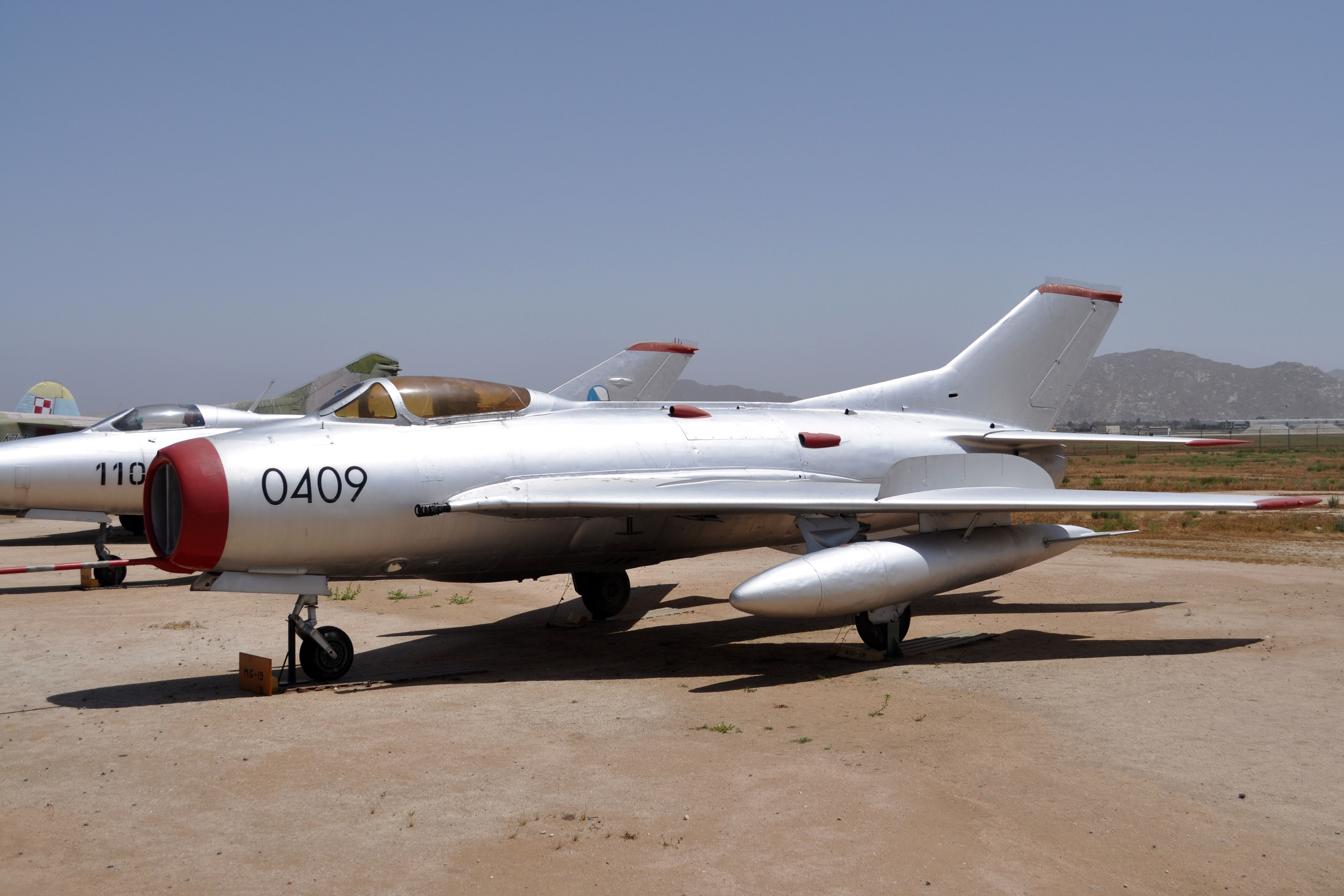 Czechoslovakian Air Force